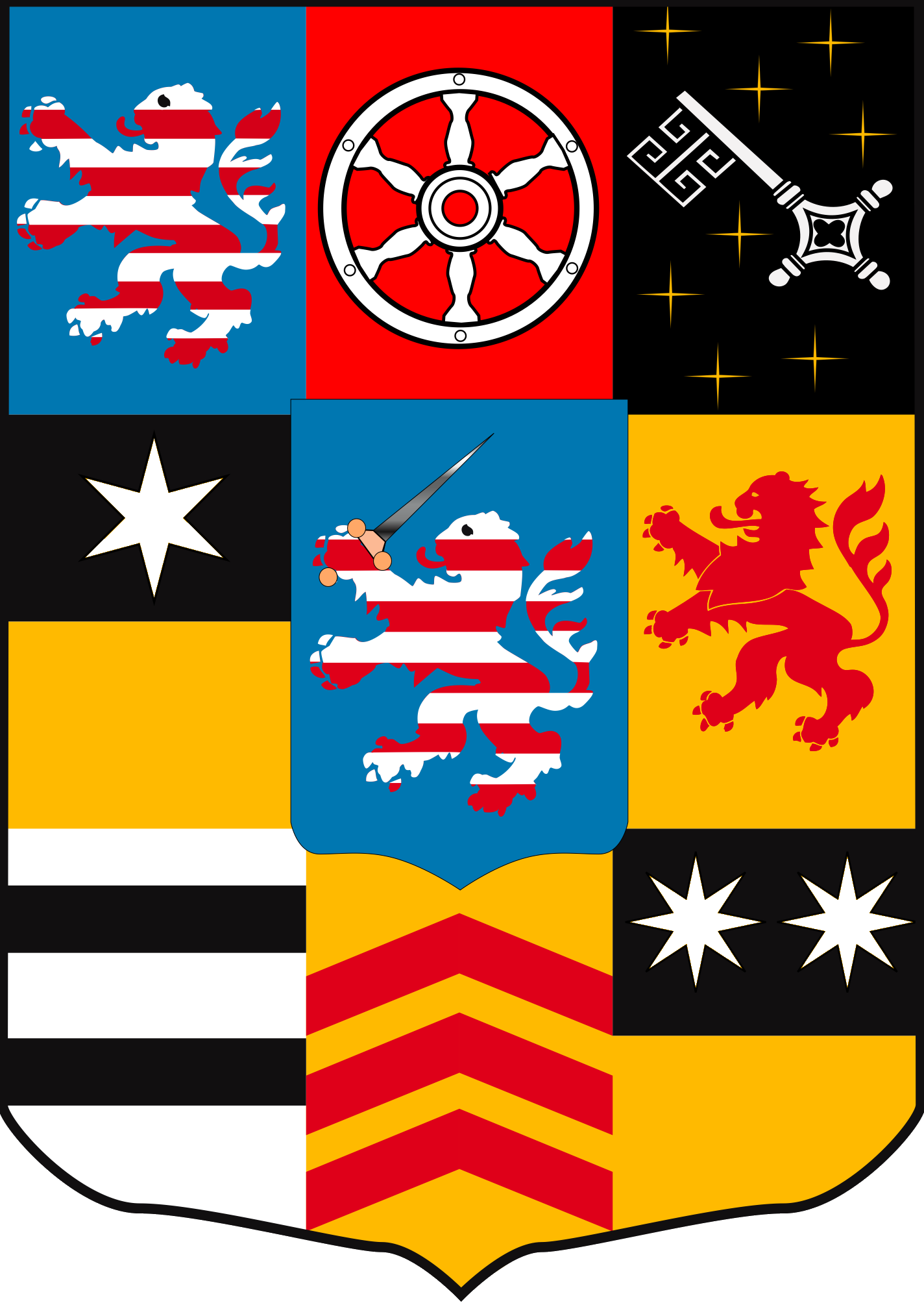 Coat of arms of the grand duchy of Hesse 1902. Please note that this is a rough sketch: true representations of the arms show a blue crown on the red lion (which should face front) and gold crowns on the red and white lions.